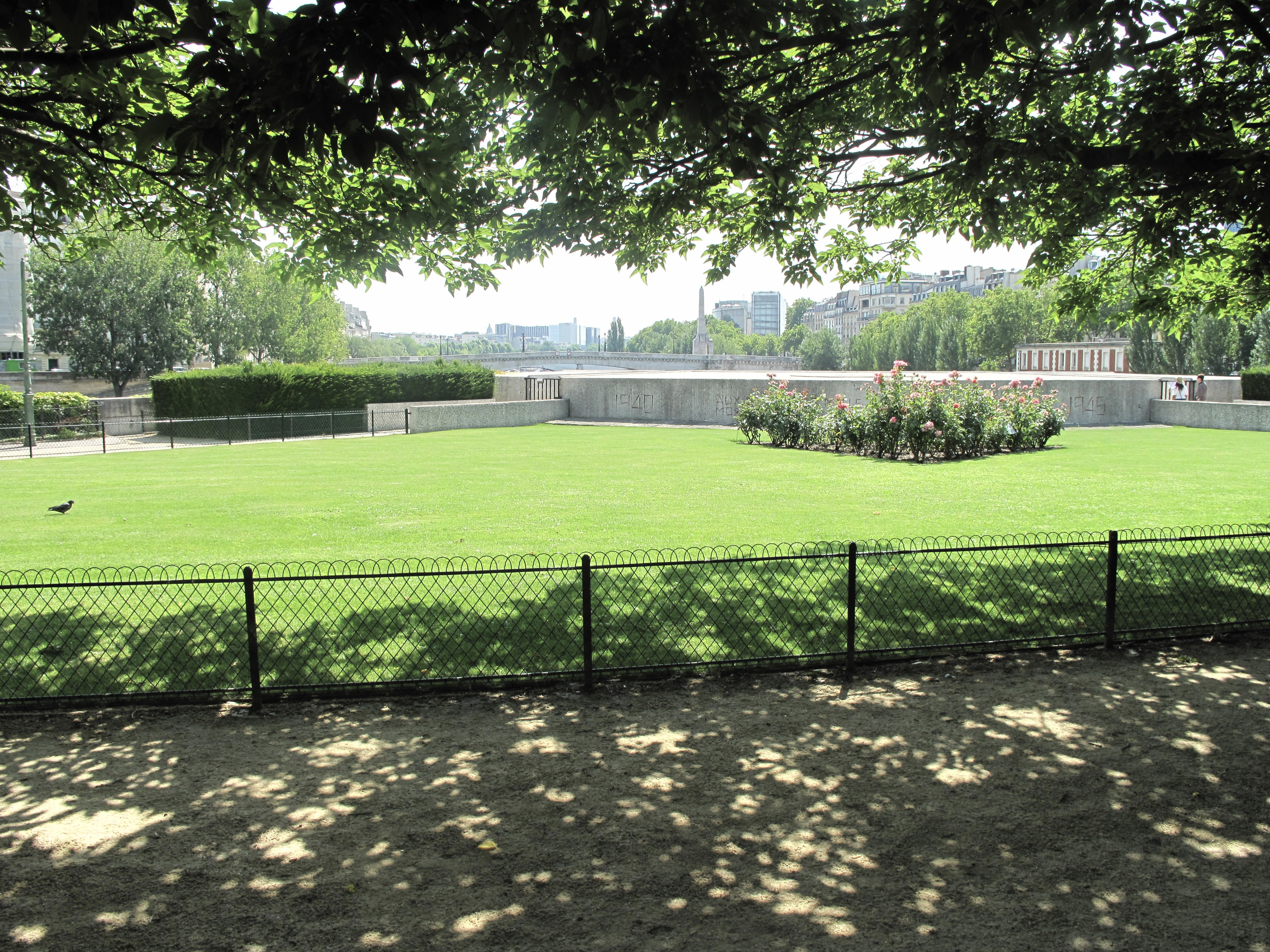 Square de l'Île-de-France, with the entrance of the Memorial of the Deportation. Île de la Cité, Paris 4th arr.